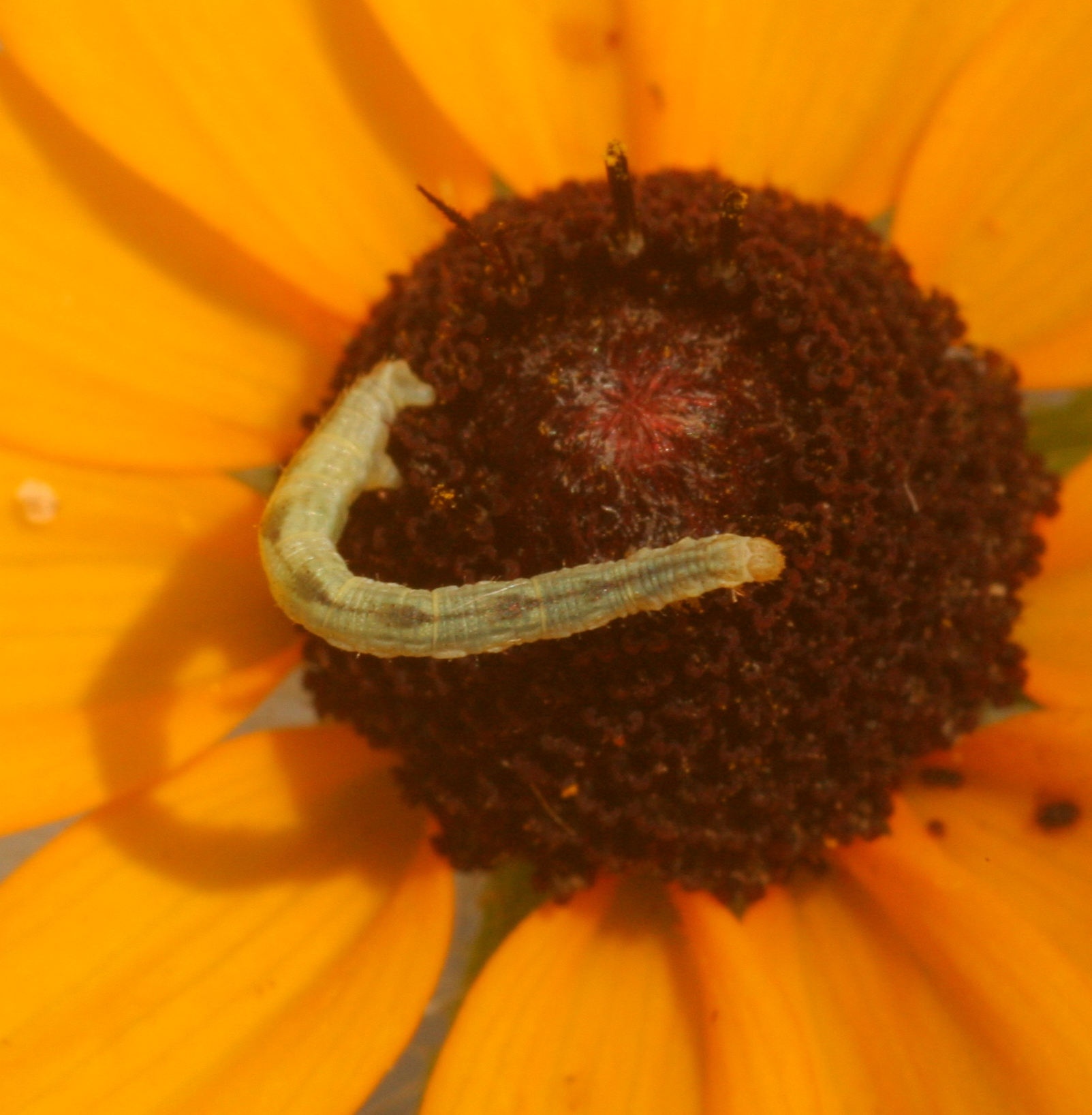 Eupithecia miserulata larva on Black-eyed Susan, Rudbeckia serotina